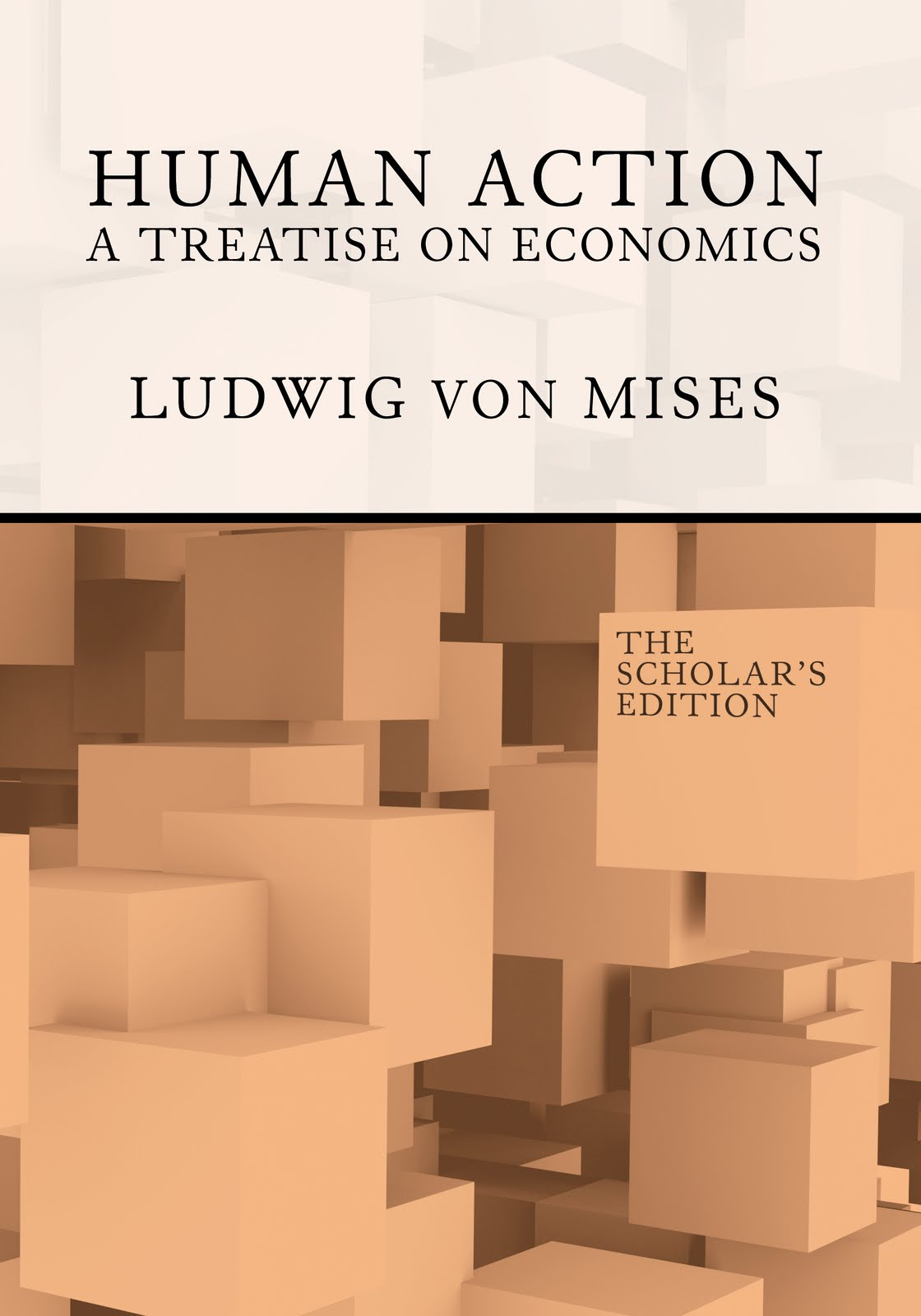 Cover of the scholar's edition of Human Action by Ludwig von Mises